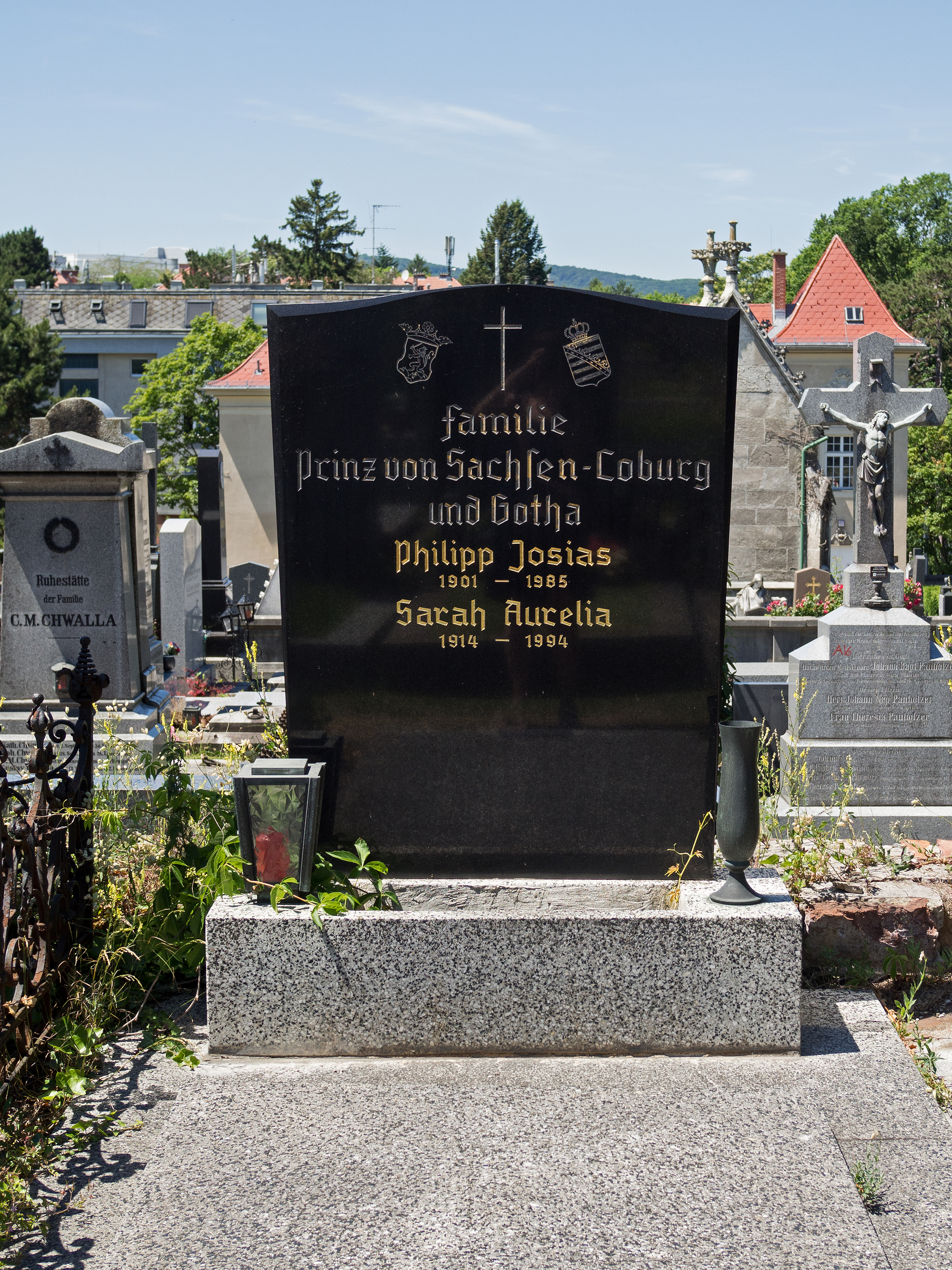 Grave of Prince Philipp Josias of Saxe-Coburg and Gotha (1901–1985) and his wife Sarah Aurelia (1914–1994). Hietzing cemetery, 1130 Vienna